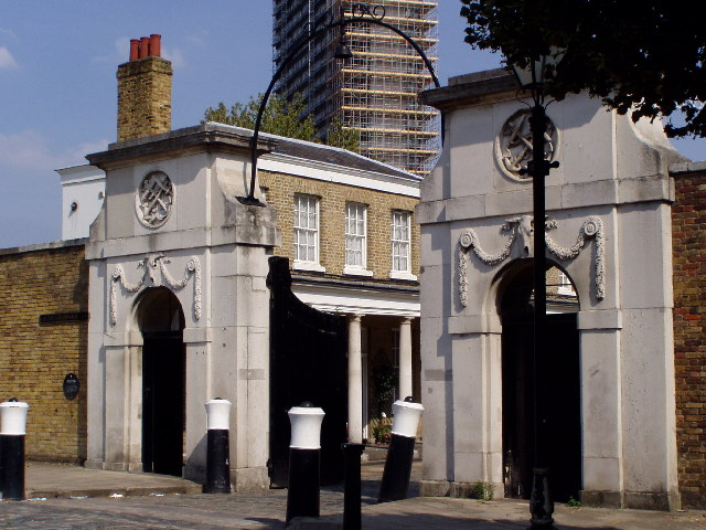 Royal Navy victualling yard, Deptford.